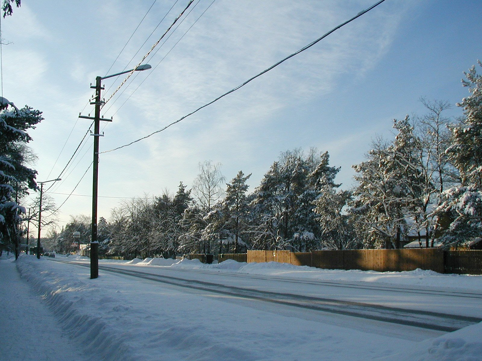 Vabaduse puiestee in Tallinn